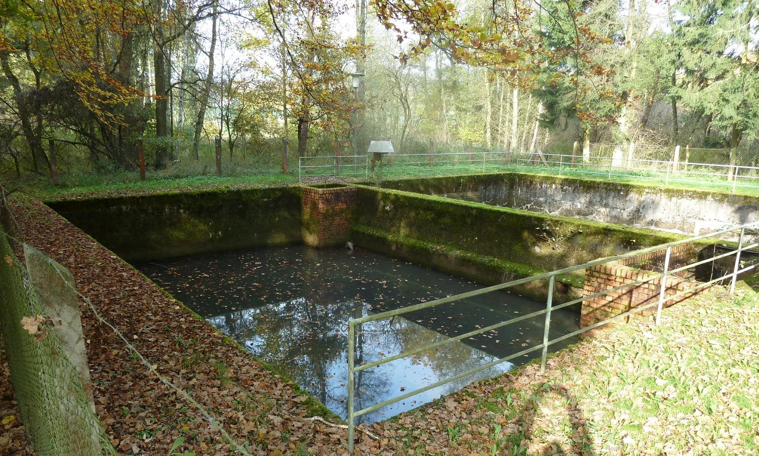 Former waterworks of the Allendorf explosives factory.